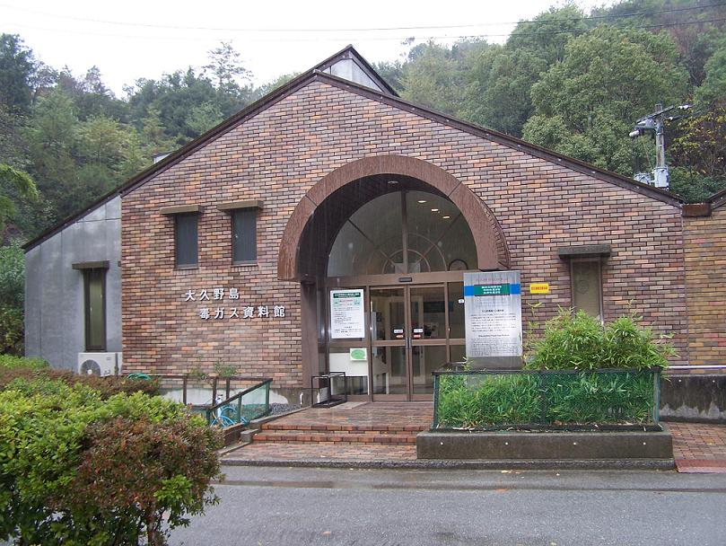 Photo of the ruins of the poison gas factory on Okunoshima, Hiroshima Prefecture, Japan.